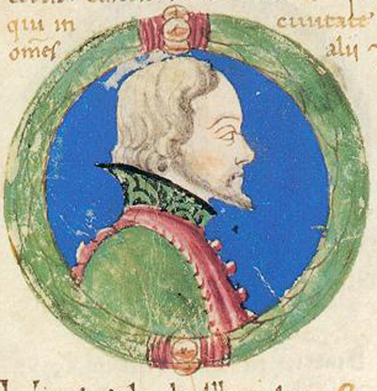 Hugh, son of Alberto Azzo II